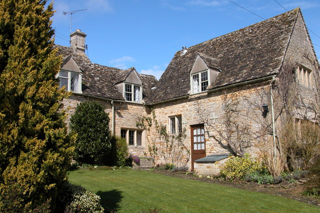 Cottages in Icomb, Gloucestershire, England